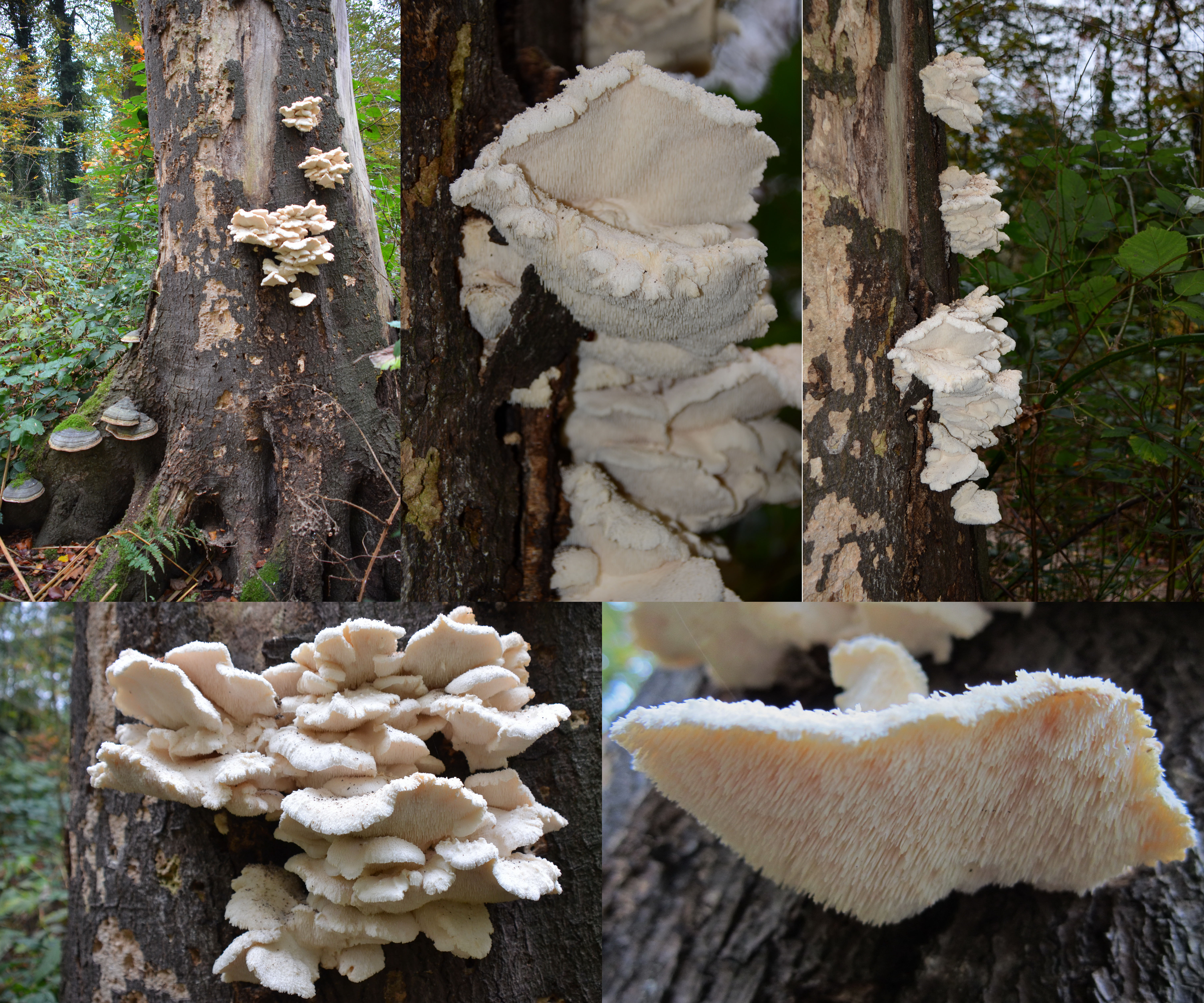 Hericium cirrhatum Syn. Creolophus cirrhatus, GB= Tiered Tooth Fungus, D= Dorniger stachelbart Syn. Dorniger Stachelseitling, F= Créolophe ondulé, NL= Gelobde pruikzwam) just on some 30 m distance from the preceeding Bearded Tooth Mushroom. Still young ones, so short teeth and pure white of colour